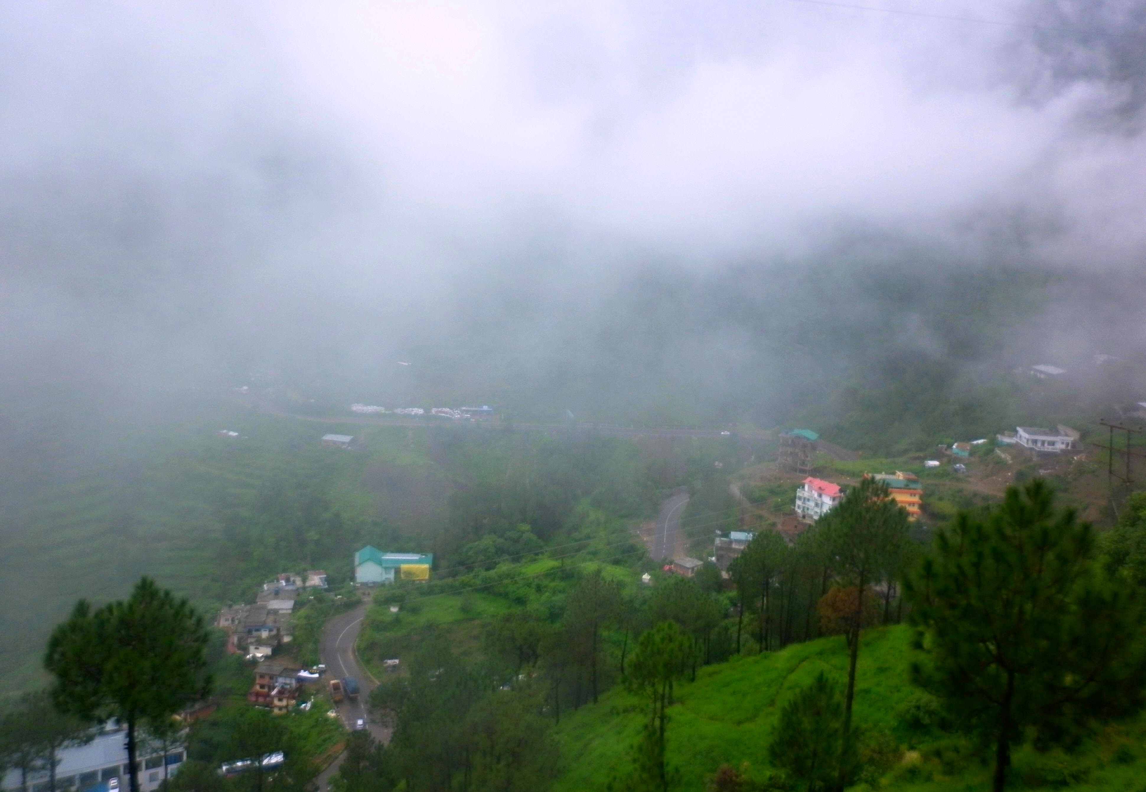 Solan city during monsoons